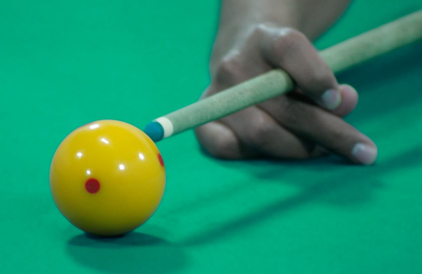 billiard